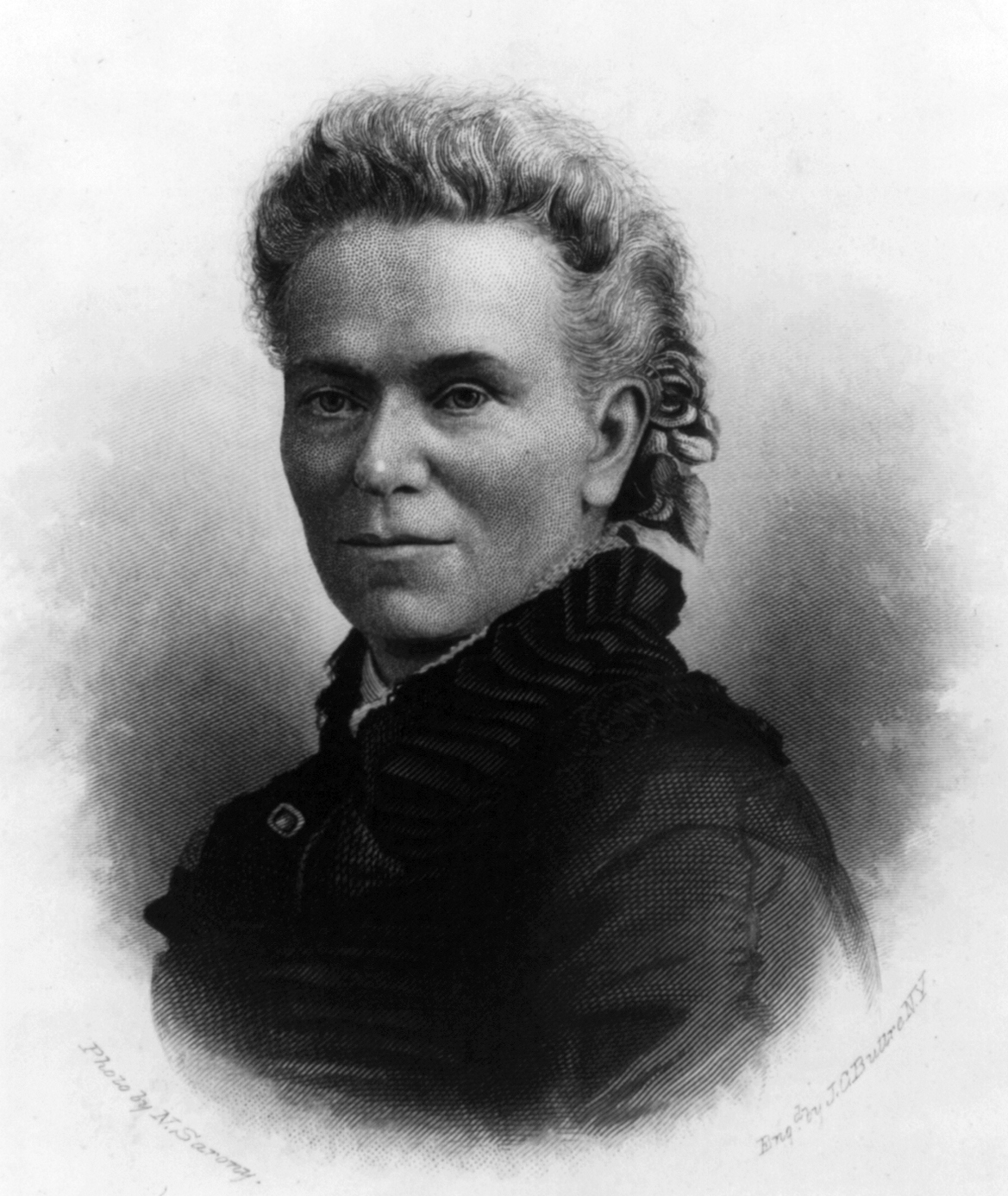 Matilda Joslyn Gage (1826-1898), American suffragette and abolitionist